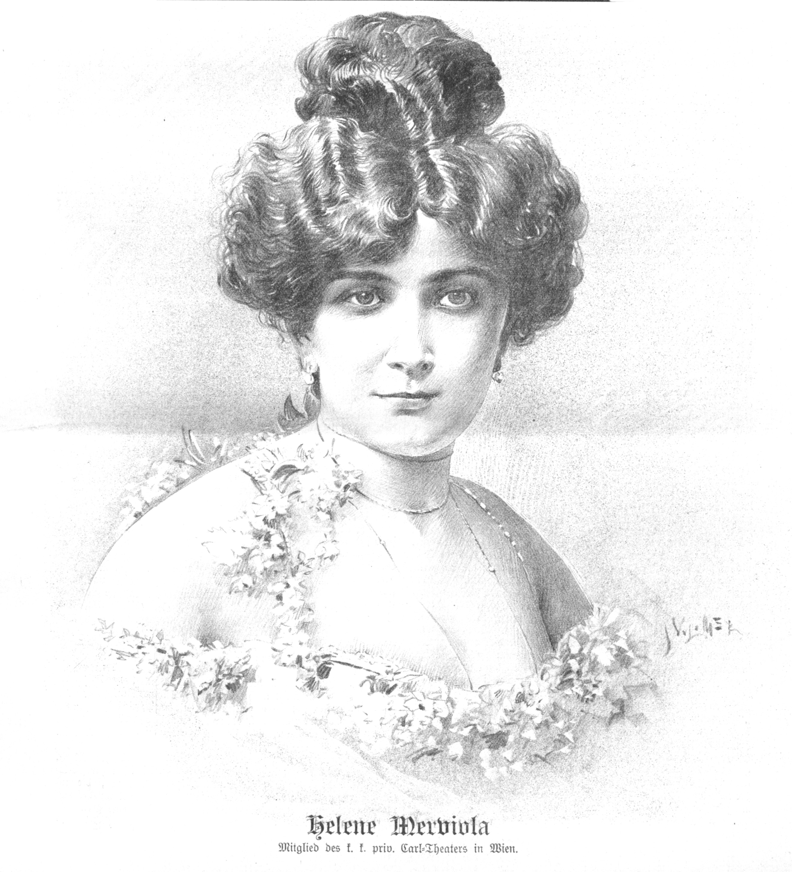 Portrait of Helene Merviola (1883-1966), Austrian actress and operette singer.